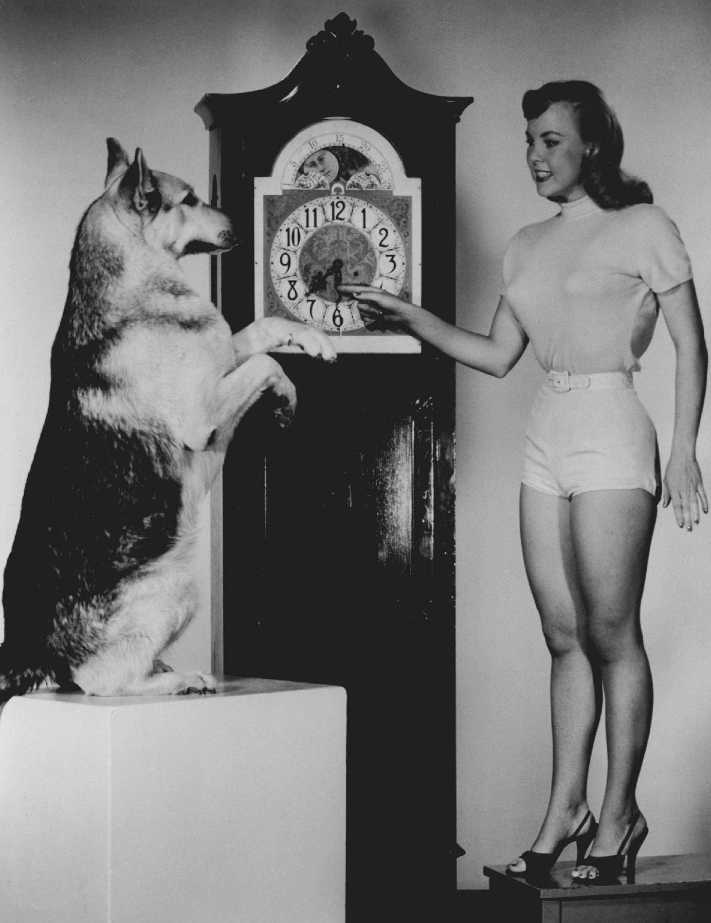 Promotional photo of Rin Tin Tin and actress Jana Lund reminding people that Daylight Saving Time would soon begin and also to promote the children's television program.